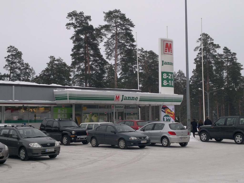 M Janne grocery store in Ekenäs, Raasepori, Finland. Photo taken in 26.2.2011.